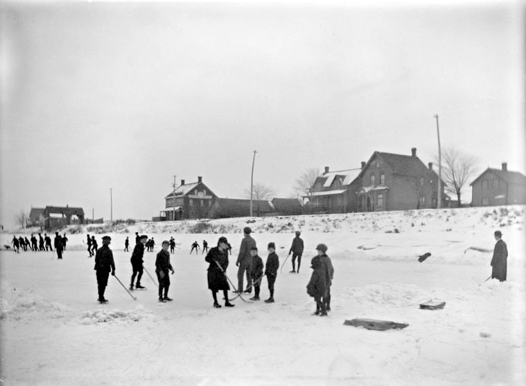 "Hockey on the [Rideau] Canal [Christmas Day 1901]." 25 Dec. 1901 / Ottawa, Ont.